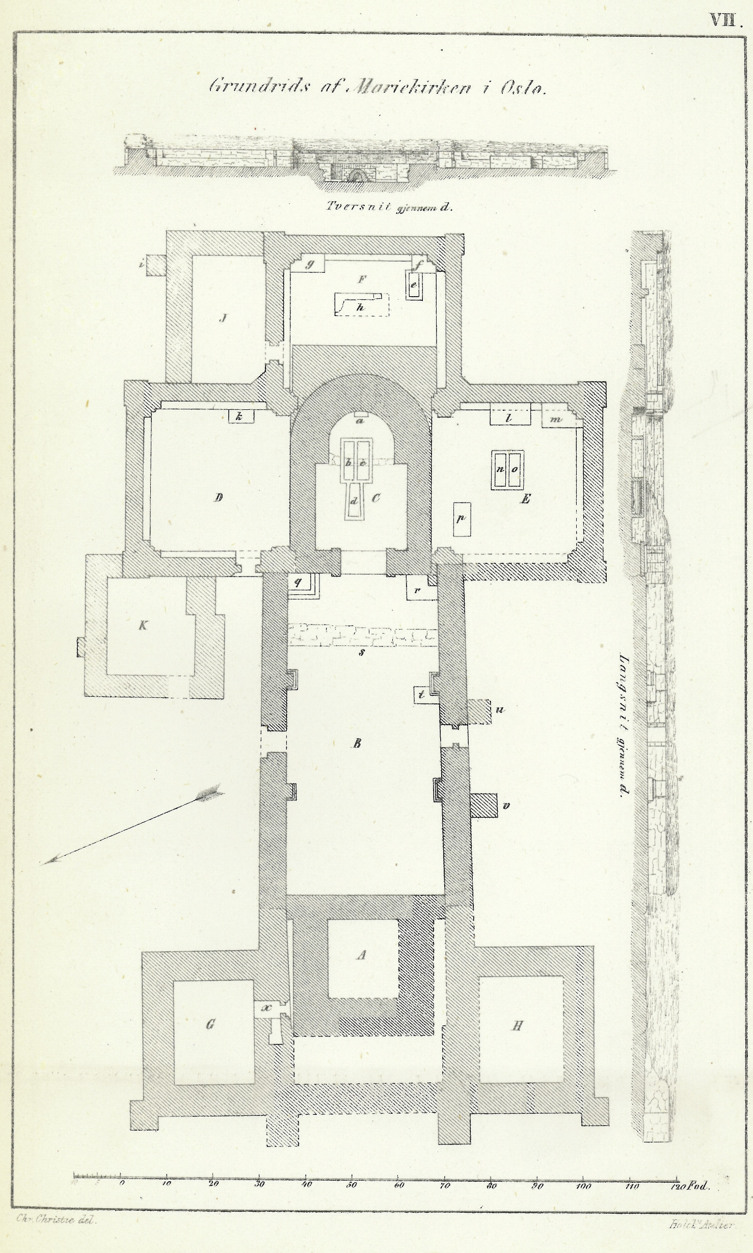 Floorplan of St. Mary's Church in Oslo, from the yearbook of the Norwegian Society for the Preservation of Ancient Monuments, 1866. (Kristiania, 1867). From an article by Chr. Christie